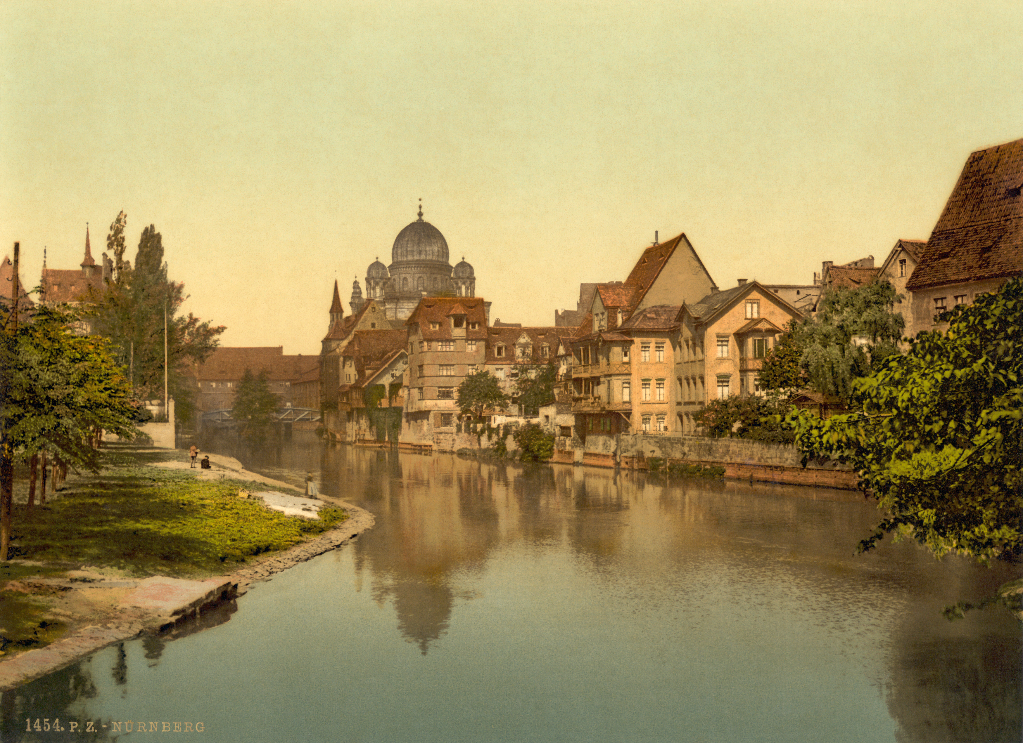 The Pegnitz shore and synagogue, Nuremberg, Bavaria, Germany Print no. "1454"